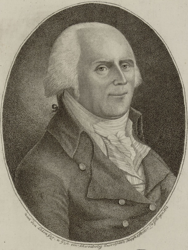 Portrait of Claus von der Decken (1742-1826) Minister of Hanover